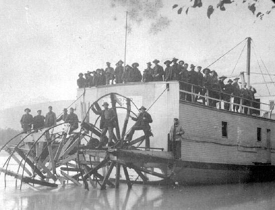 Mono (sternwheeler) possibly at Wrangel, Alaska, ca 1898, with passengers, and damaged paddlewheel.